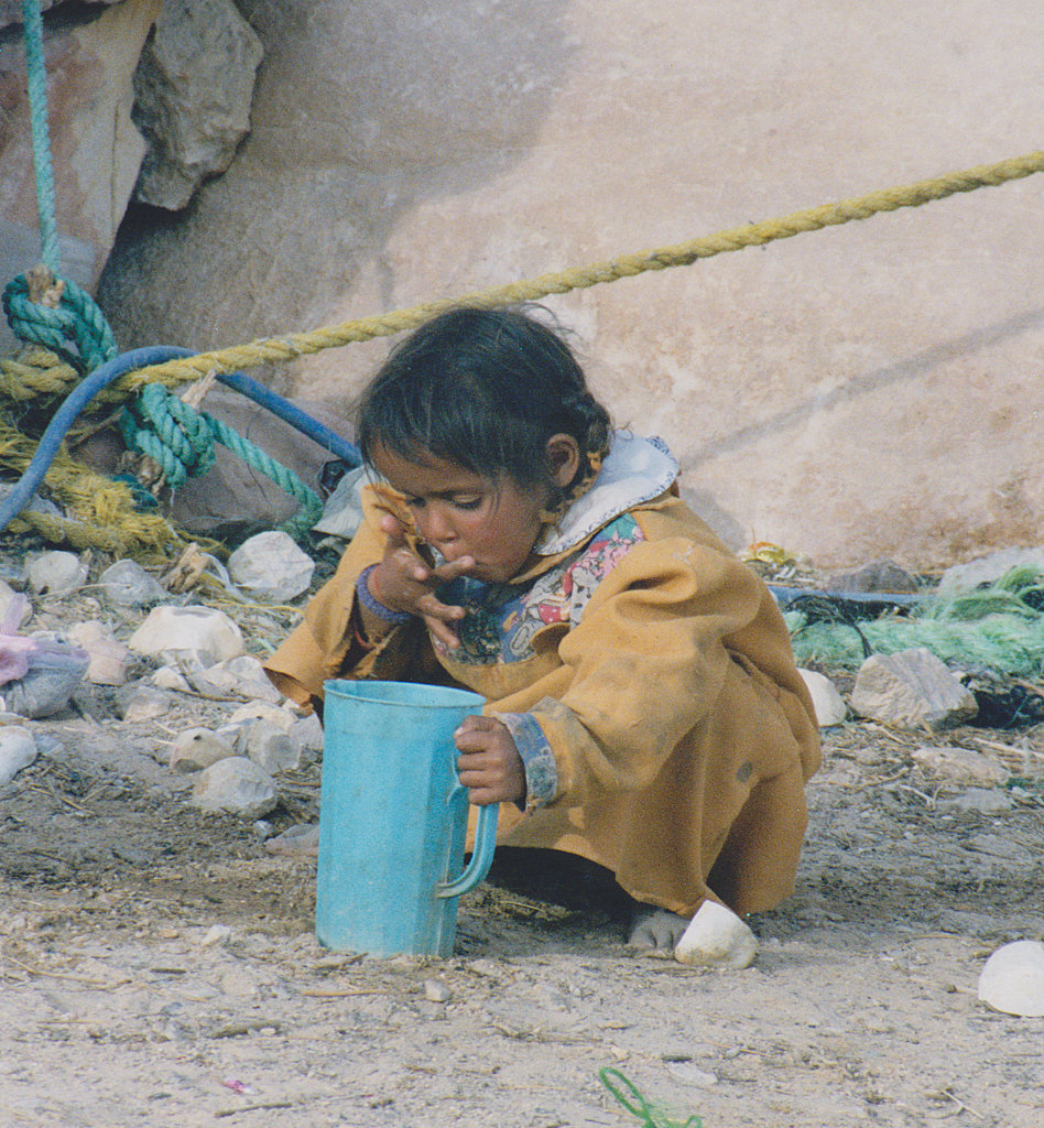 Drinking child Egypt